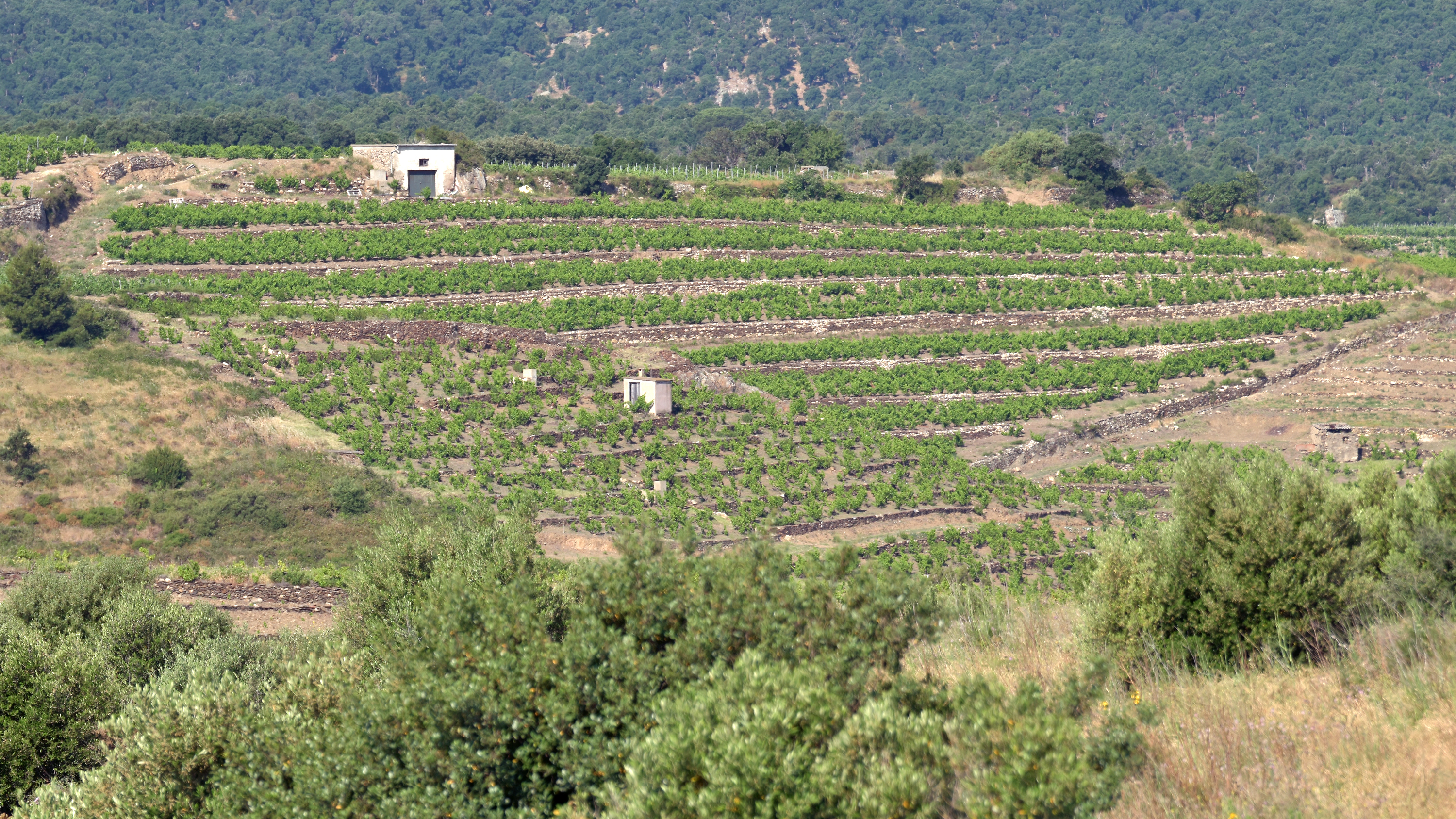 Collioure-AOC